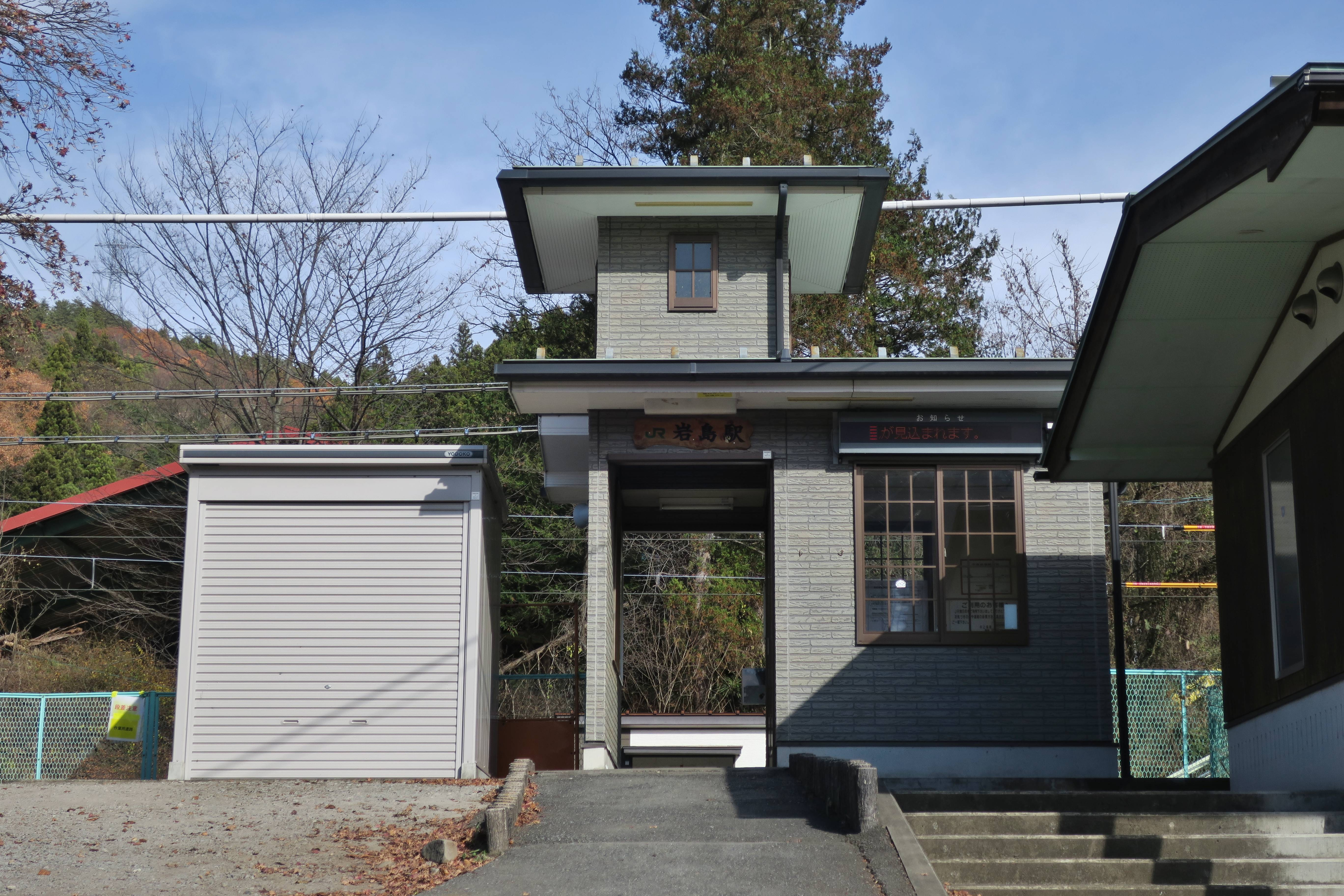 Iwashima Station.